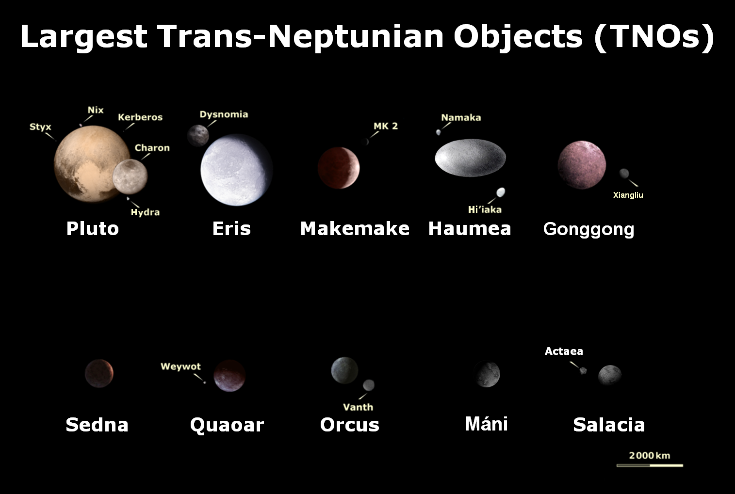 My masterpiece :) This is a size comparison of the 10 largest Kuiper Belt objects that are listed as "very likely" to be dwarf planets by Mike Brown.